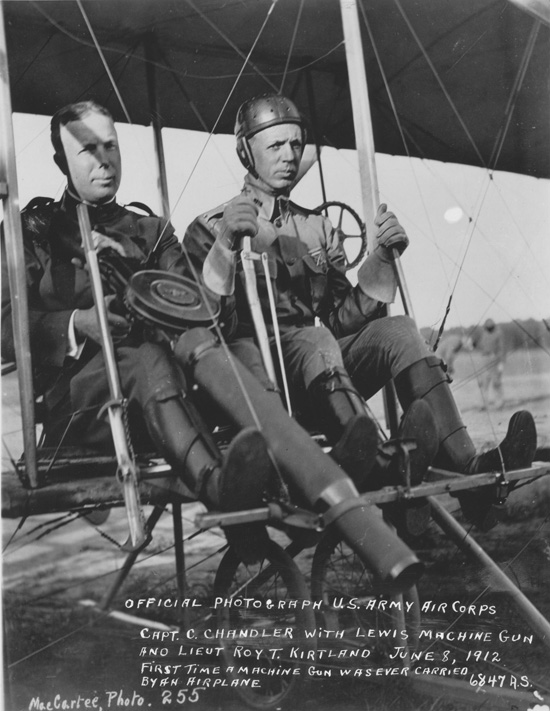 Roy Kirtland, from whom Kirtland AFB is named.